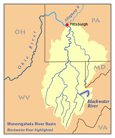 This is a map of the Monongahela River basin, with the Blackwater River in West Virginia highlighted. Credits I, Pfly, made it, based on USGS data.